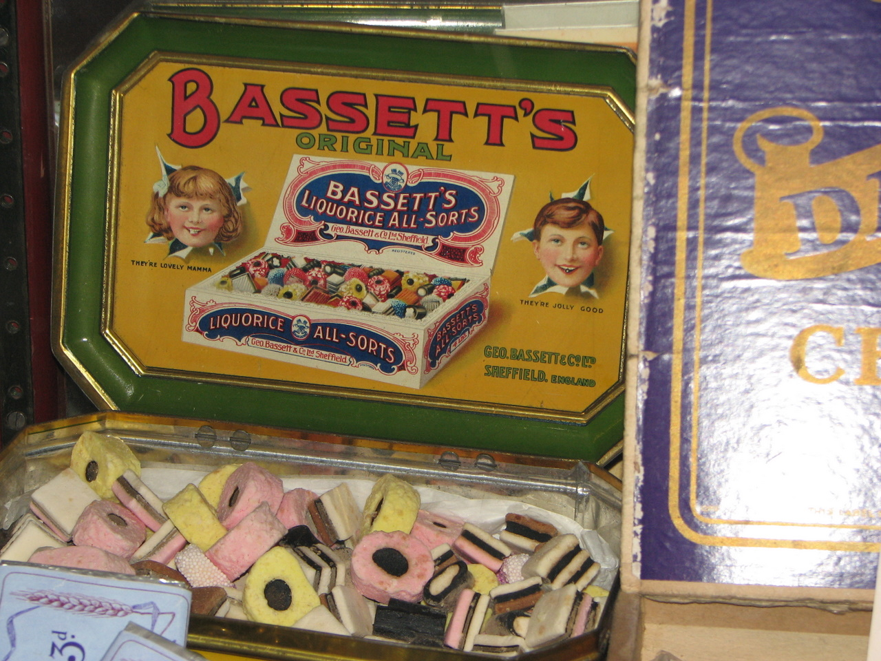 Beamish Museum, County Durham, England. These are some of the many sweets available inside Jubilee Confectioners in Town - in this case a tin of Bassett's Original Liquorice All-Sorts.